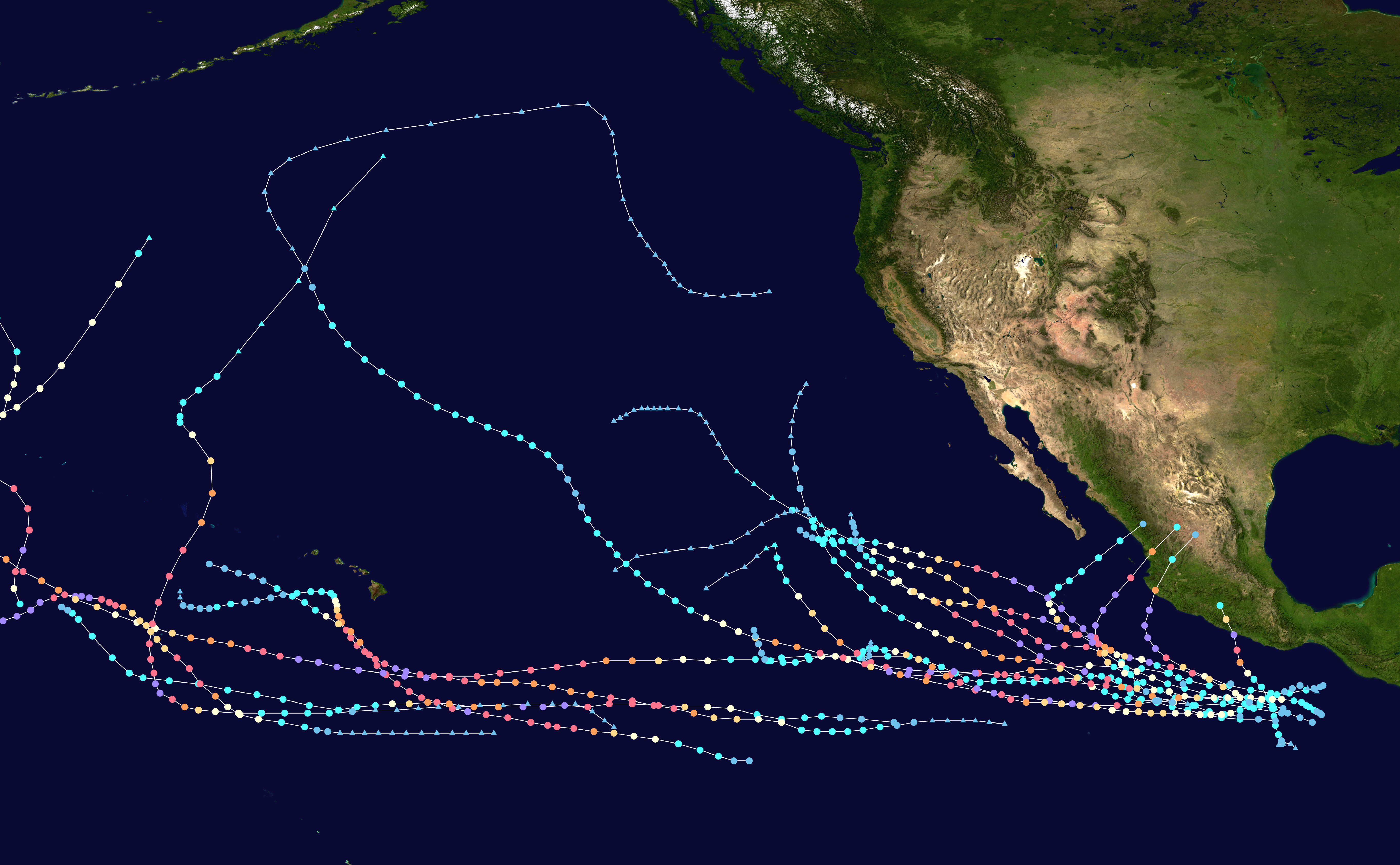 Track map of Eastern Pacific Category 5 hurricane tracks of the :w:| . The points show the location of the storm at 6-hour intervals. The colour represents the storm's maximum sustained wind speeds as classified in the Saffir–Simpson scale (see below), and the shape of the data points represent the nature of the storm, according to the legend below. Saffir–Simpson scale Tropical depression≤38 mph≤62 km/h Category 3111–129 mph178–208 km/h Tropical storm39–73 mph63–118 km/h Category 4130–156 mph209–251 km/h Category 174–95 mph119–153 km/h Category 5≥157 mph≥252 km/h Category 296–110 mph154–177 km/h Unknown Storm type Tropical cyclone Subtropical cyclone Extratropical cyclone / Remnant low / Tropical disturbance